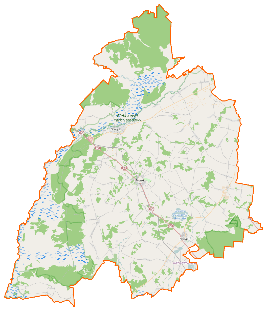 Map of Powiat moniecki, Poland This map of Powiat moniecki was created from OpenStreetMap project data, collected by the community. This map may be incomplete, and may contain errors. Don't rely solely on it for navigation.